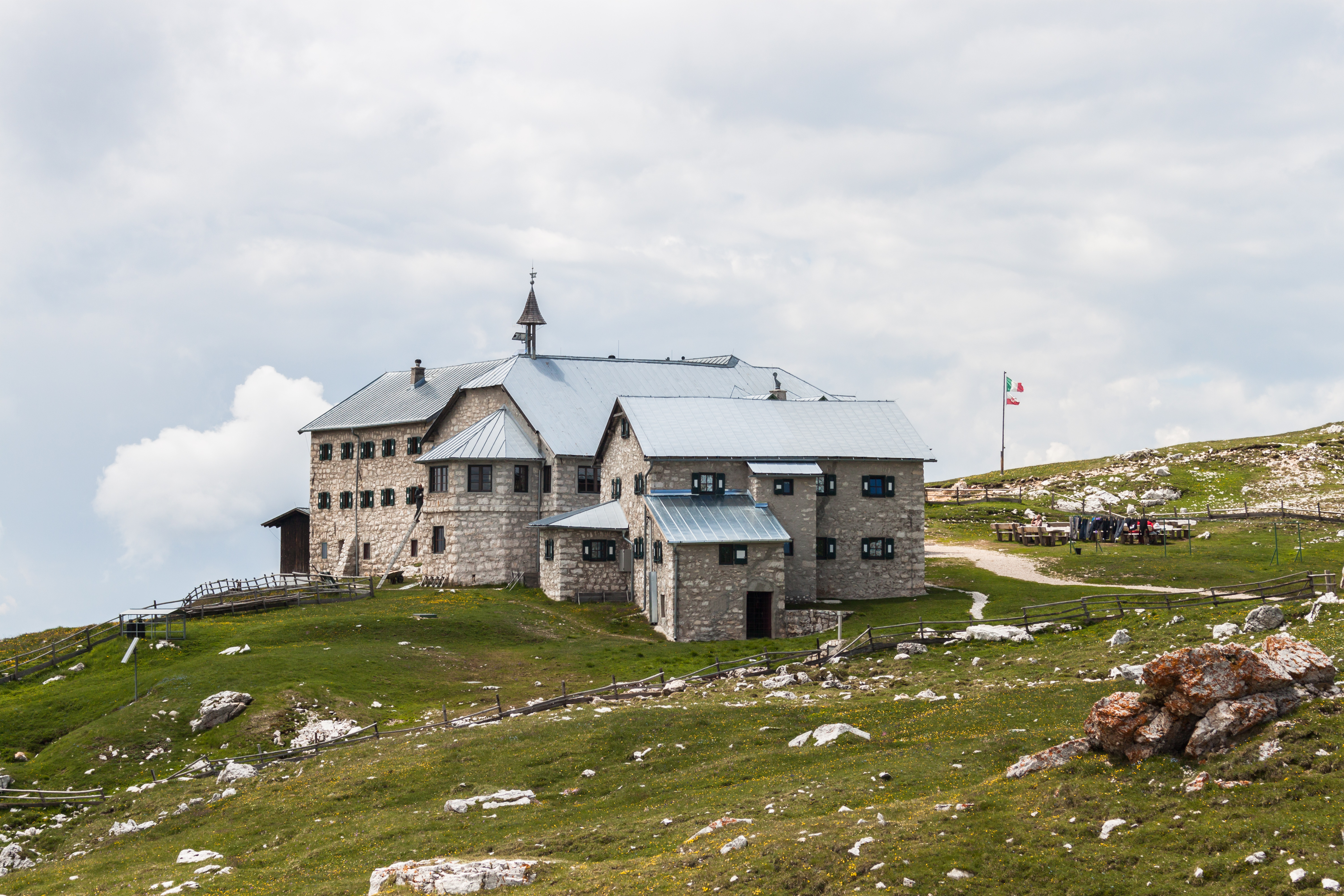 The Schlernhaus as seen from mount Petz. The house is a refuge in the Rosengarten Group in South Tyrol.